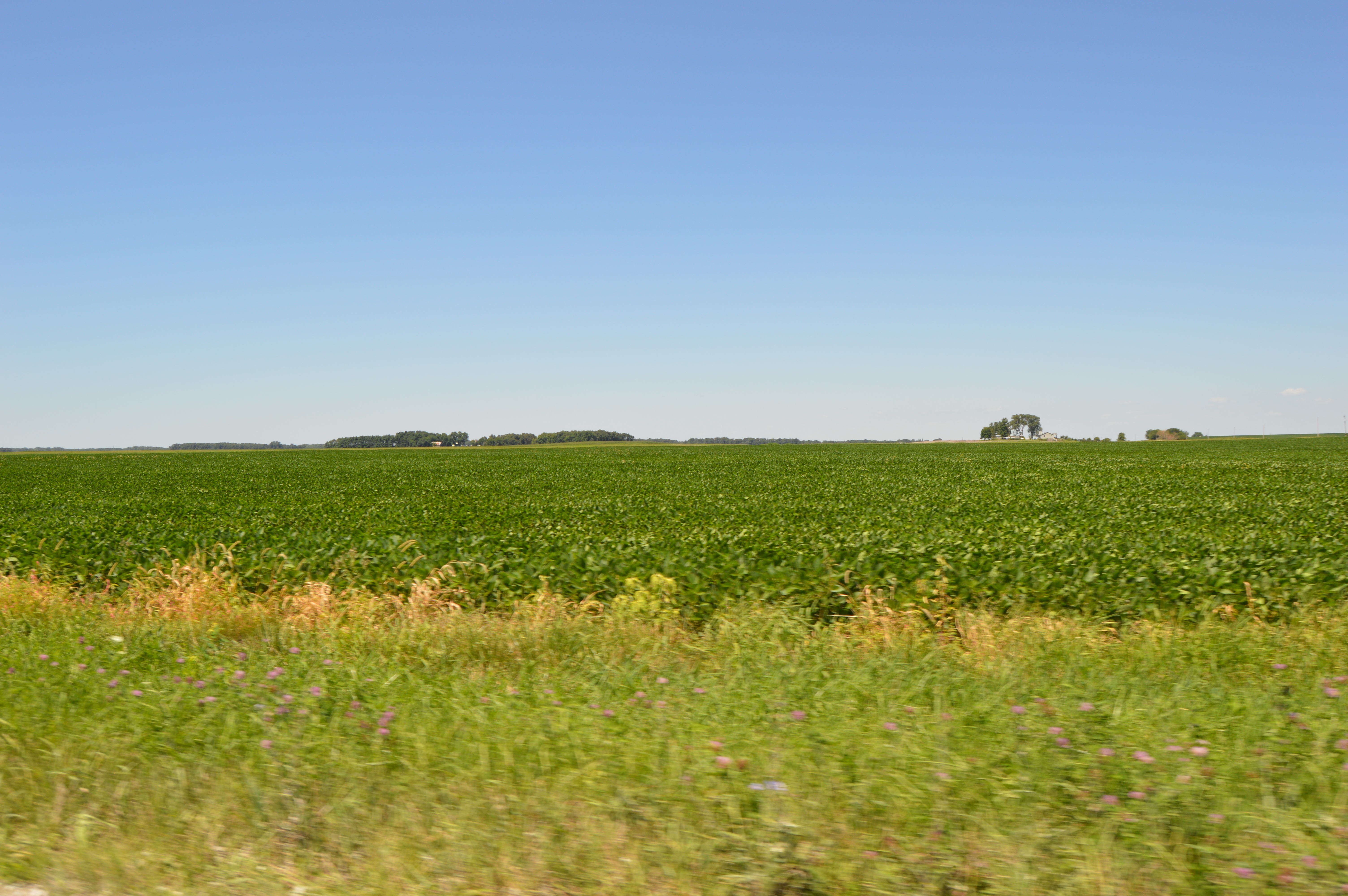 Fields in far southeastern Papineau Township, Iroquois County, Illinois, United States, looking north from 3000 North west of Beaverville.